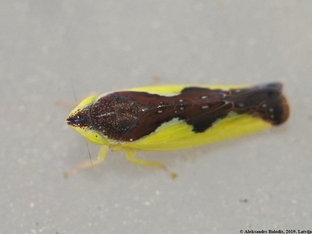 Platymetopius major